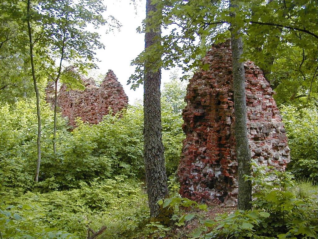 Augstroze Castle ruins